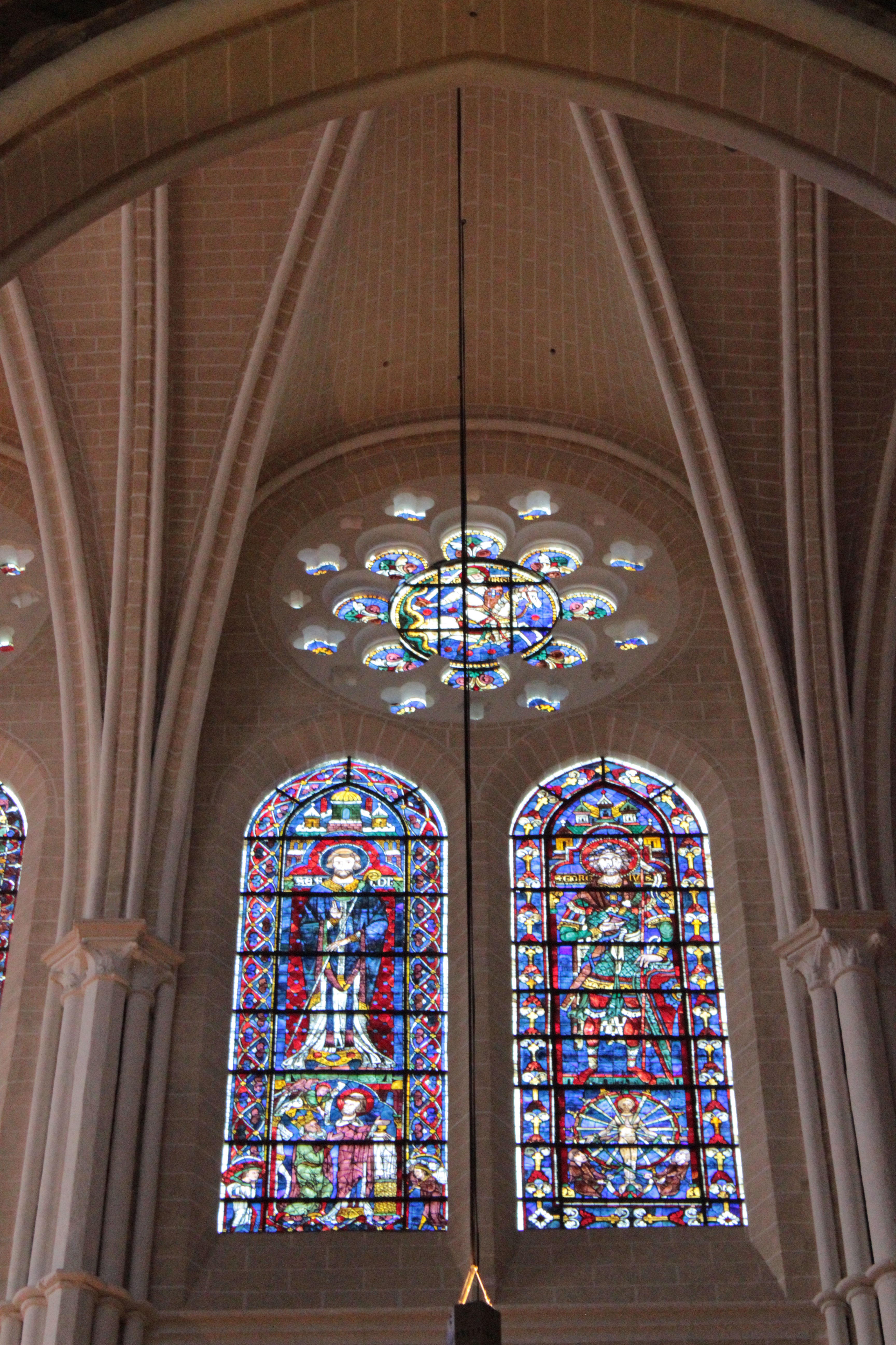 Stained glass windows of Cathédrale Notre-Dame de Chartres - Upper series